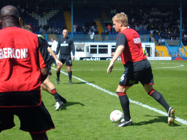 English association footballer Garry Monk warming up for Swansea City prior to kick off against Bury FC during the 2004/05 season